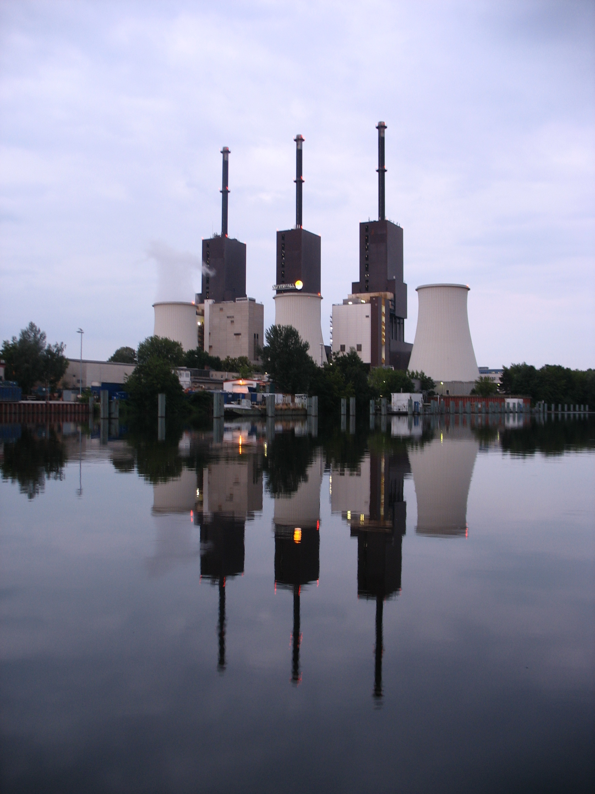 Power Station in Lichterfelde (Berlin) at Teltow Canal